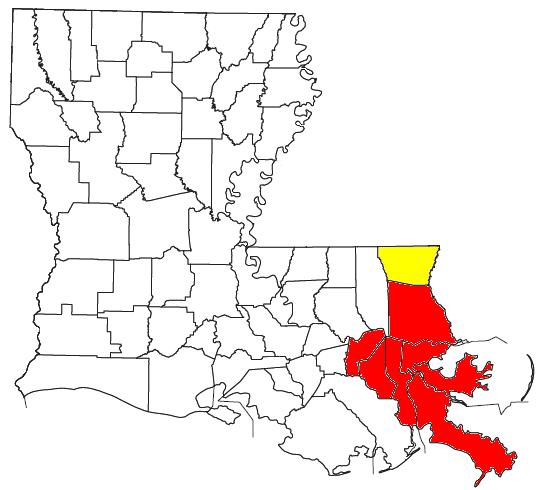 Locator map of the New Orleans-Metairie-Bogalusa Combined Statistical Area in the southeastern part of the U.S. state of Louisiana. The two components of the CSA are colored separately: New Orleans-Metairie-Kenner Metropolitan Statistical Area: red Bogalusa Micropolitan Statistical Area: yellow